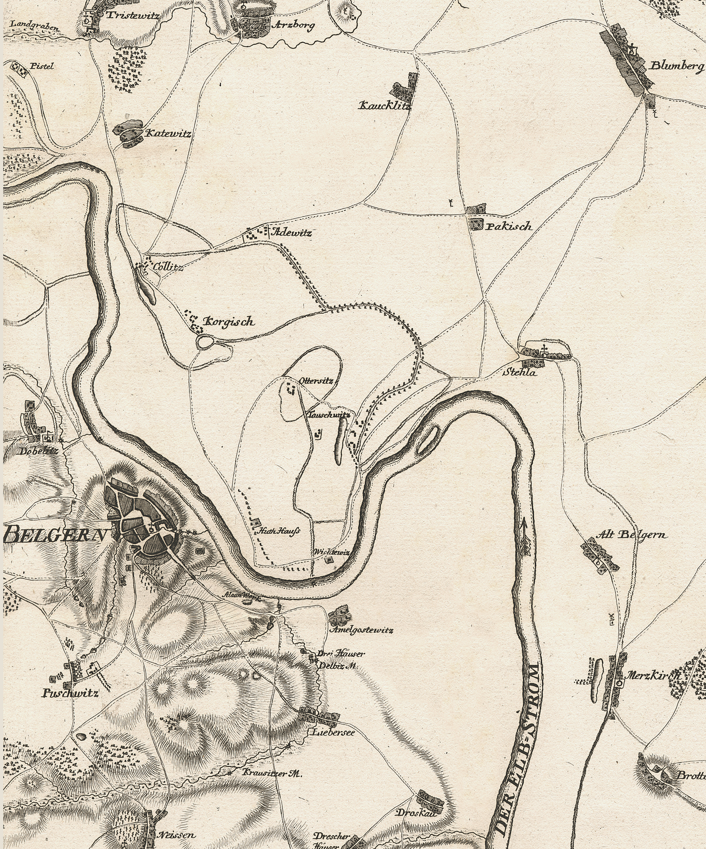 part (Mühlberg) of the map "Situations und Cabinets=Carte von einem anderen Teile des Churfürstentums Sachsen" Major Isaak Jacob von Petri